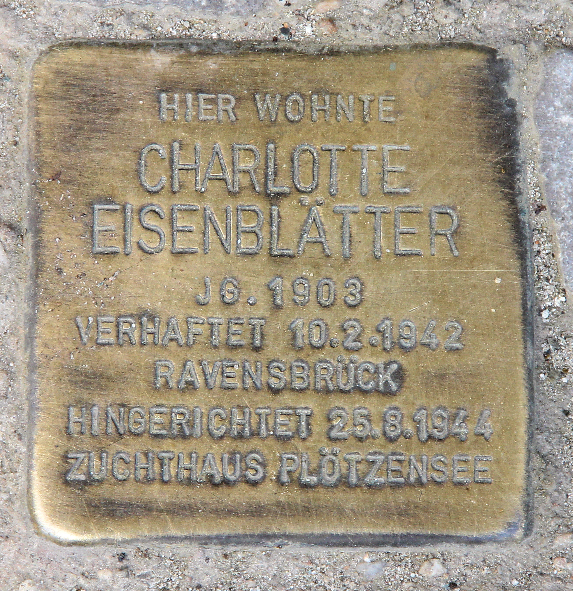 "stumbling block", Charlotte Eisenblätter, Goebelstraße 99, Berlin-Charlottenburg-Nord, Germany